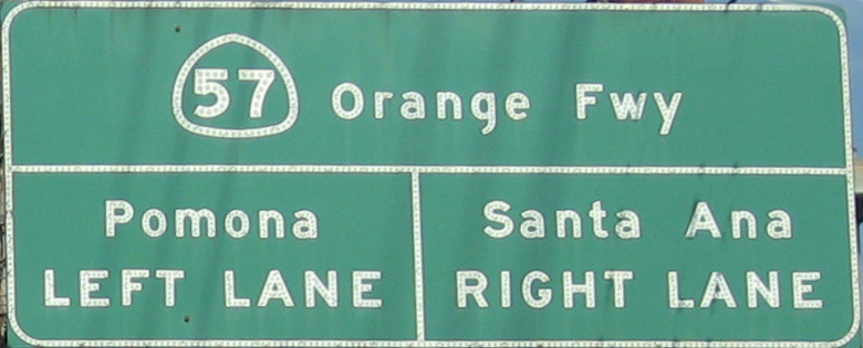 57 Orange Freeway on-ramp sign facing east on Lambert road in Brea.